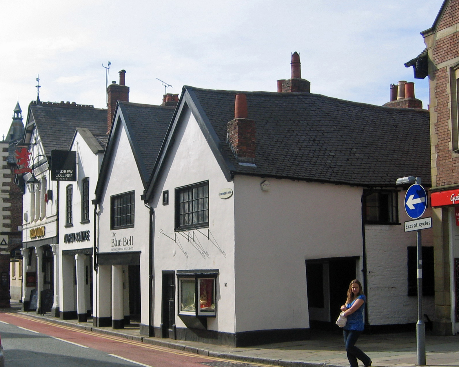 Photograph of the Blue Bell Restaurant, Northgate Street, Chester, Cheshire, England